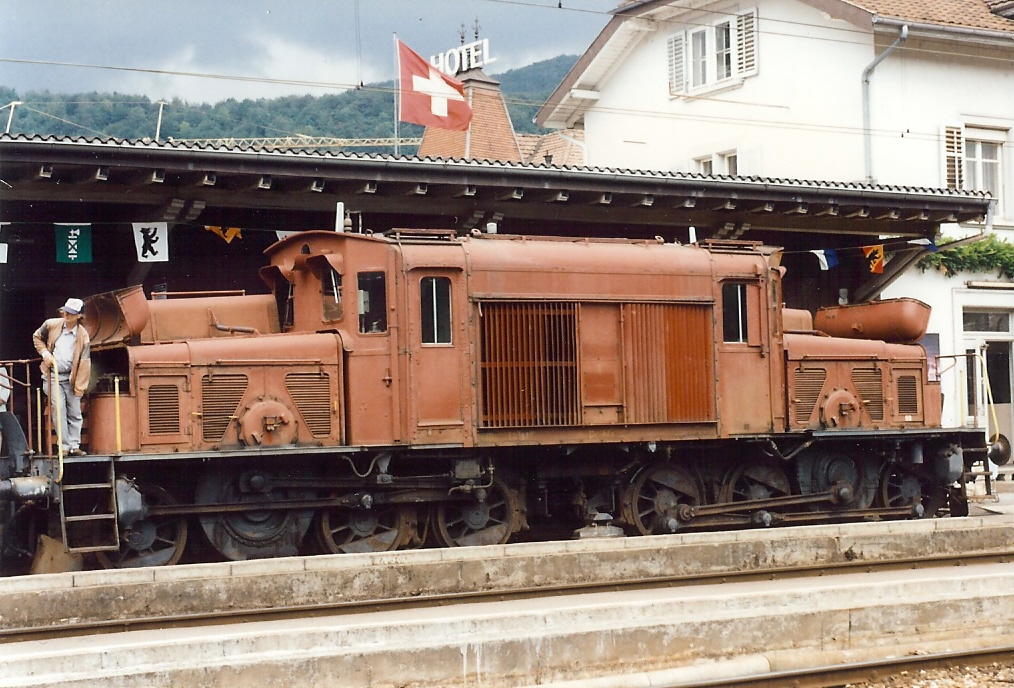 ex SBB De 6/6, before overhaul